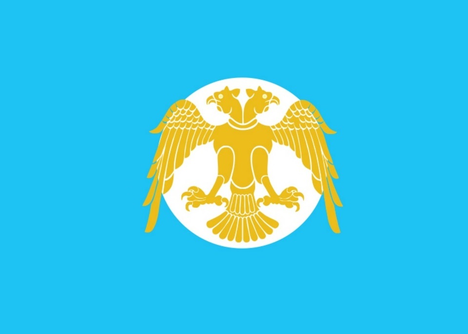 Official flag(See-1, See-2) of the Syrian Turkmen people announced as a public domain by the official governing body(See-3, See-4) of Syrian Turkmens; the Syrian Turkmen Assembly on 25th November 2015. Also used on battlefield by Syrian Turkmen Brigades and various protests around the World.